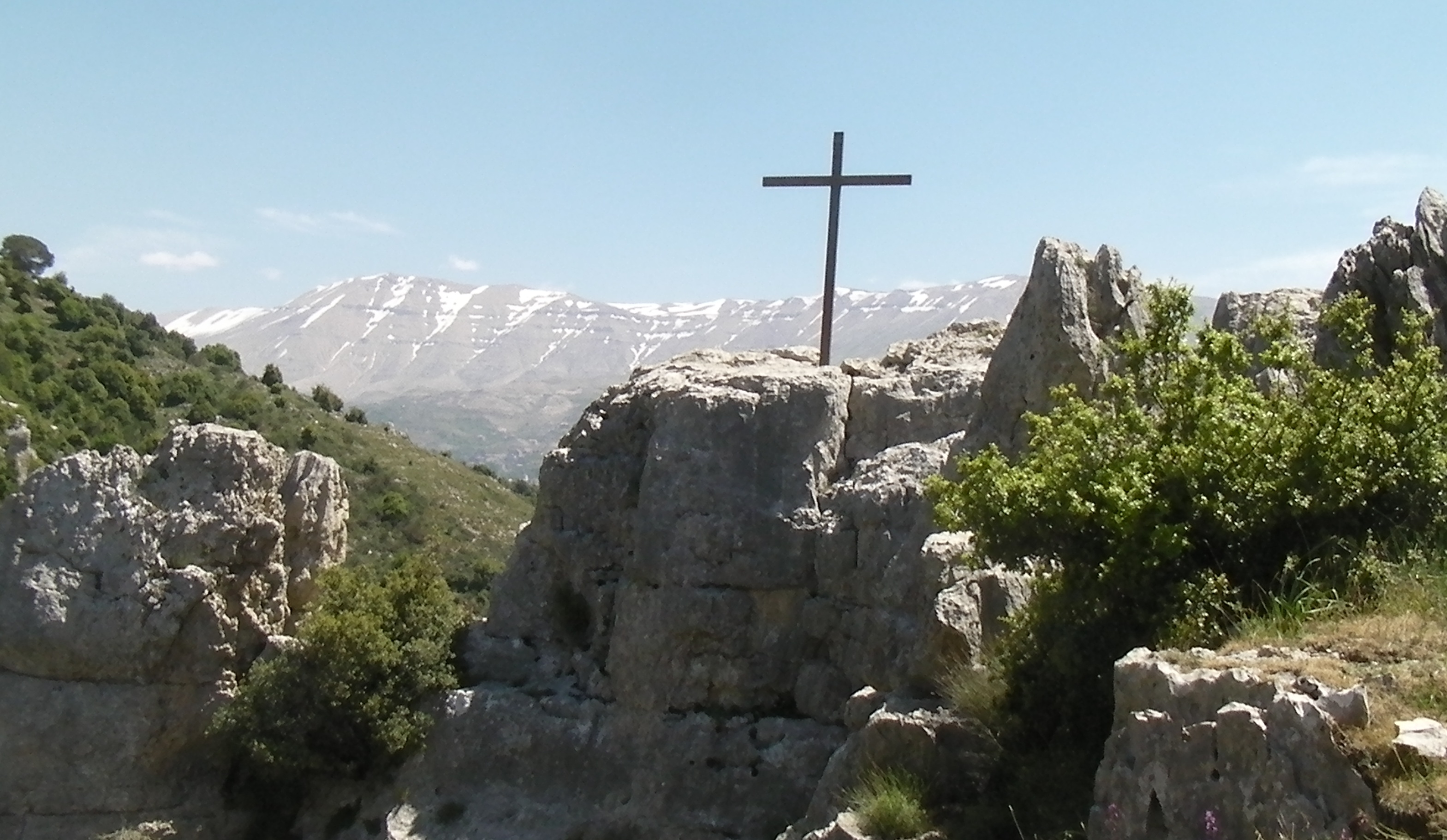 View from north side of the Qadisha Valley (Kadisha, وادي قاديشا), on the western outskirts of Blaouza (Blawza, بلوزا,), looking southeast towards the Mount Lebanon Range beyond the valley. Camera is at elevation 1250 meters.